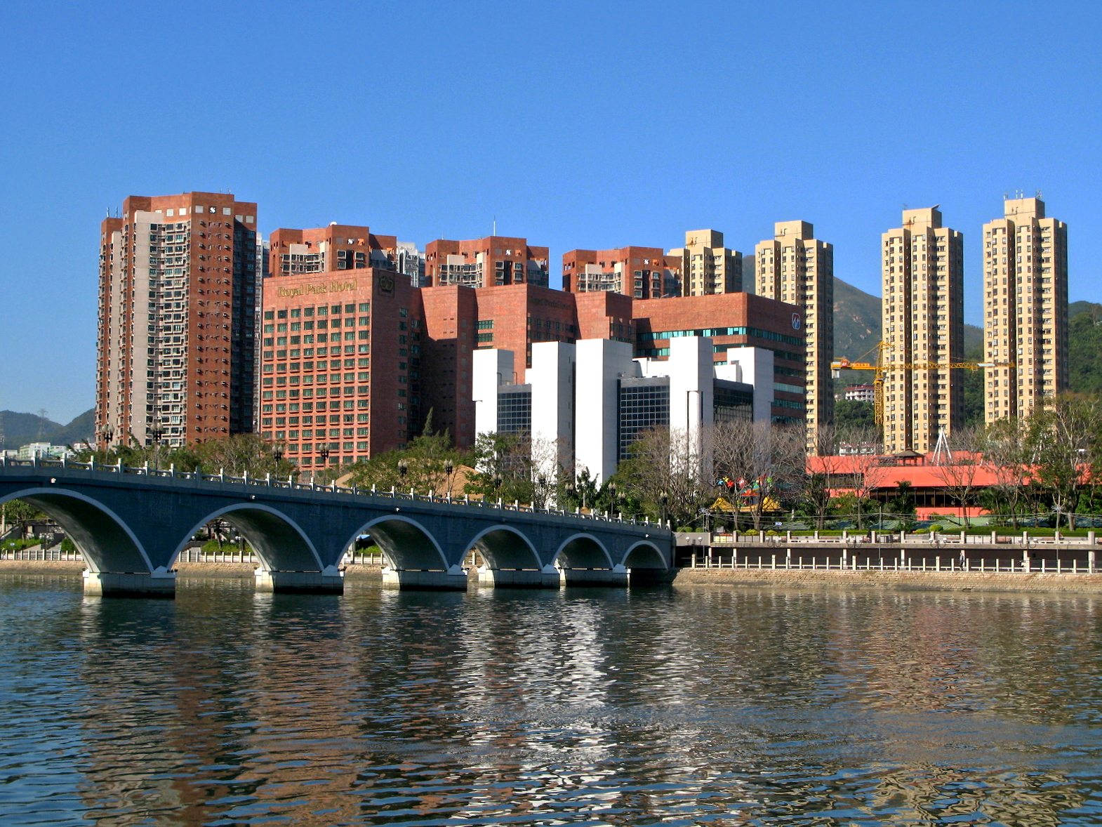 HK Shatin Magistrates Courts 沙田法院